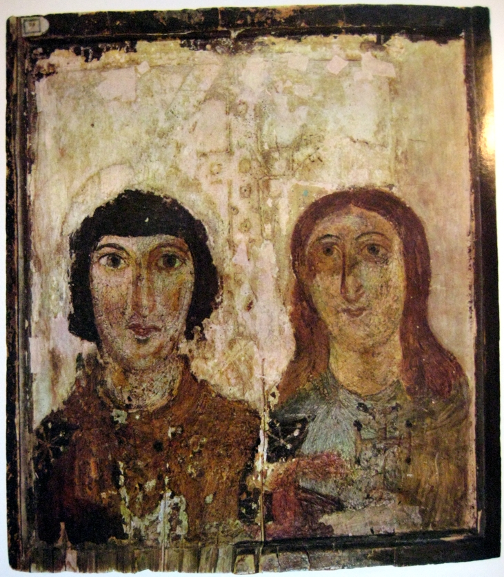 Male and female martyrs. 6-7 c. Kiev museum. Мученик и мученица